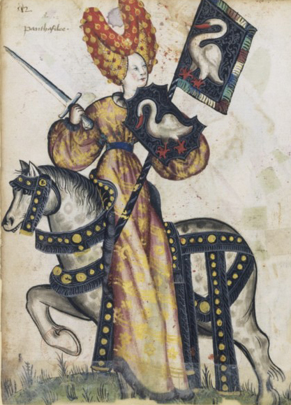 Penthesilea as one of the Nine Female Worthies, Petit armorial équestre de la Toison d'or, fol. 248. (Bibliothèque nationale de France, Manuscrits occidentaux, cote : Clairambault 1312.